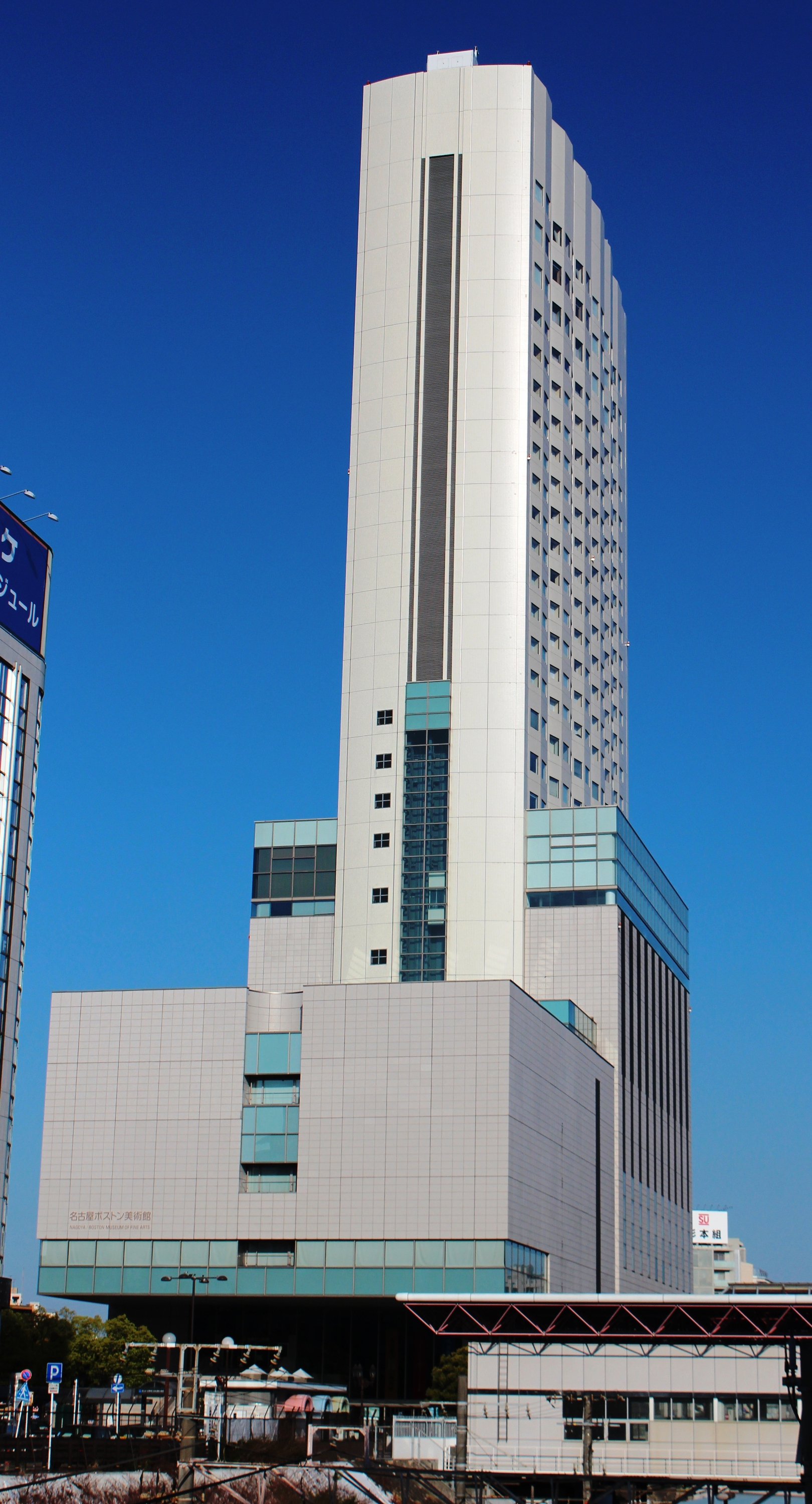 Nagoya/Boston Museum of Fine Arts and Kanayama Minami Building, in Naka-ku, Nagoya, Aichi, Japan.